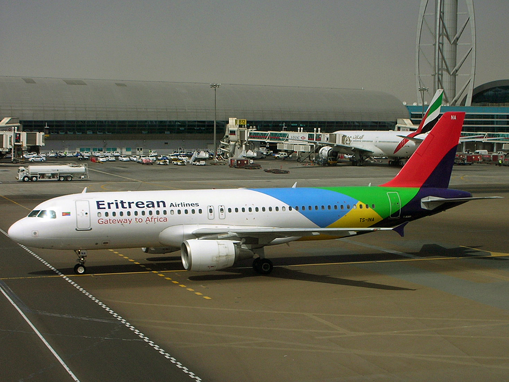 TS-INA of Eritrean Airlines at Dubai on April 23, 2012. (Taken through dirty glass with my baby Nikon).